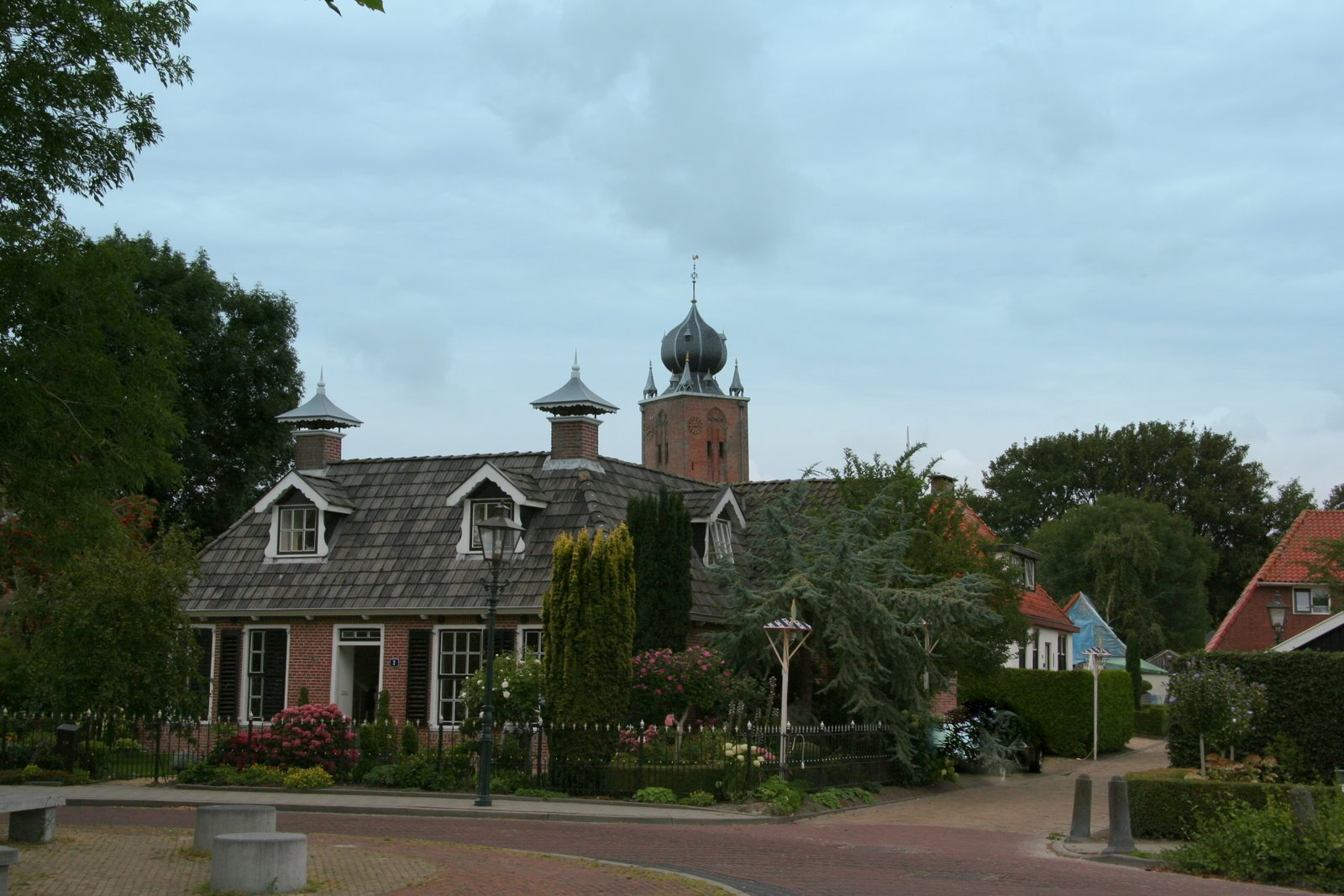 Deinum, Friesland Fotograaf Jan Dijkstra.